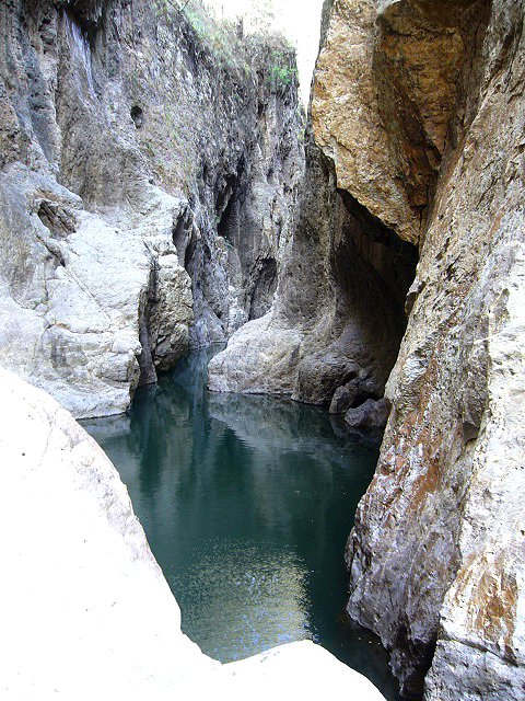 The wonderful and amazing Somoto Canon in Nicaragua. This massive and beautiful canon is a National Monument in Northern Nicaragua.